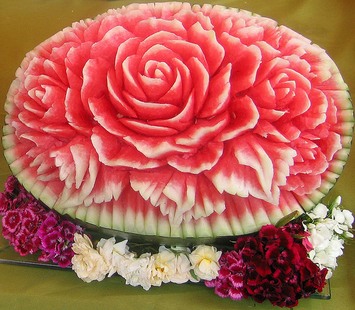 Proof that the previous pic was indeed of a watermelon